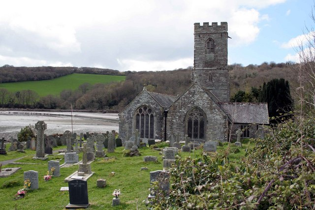 St Winnow parish church, Cornwall, seen from the east, with the Fowey estuary beyond